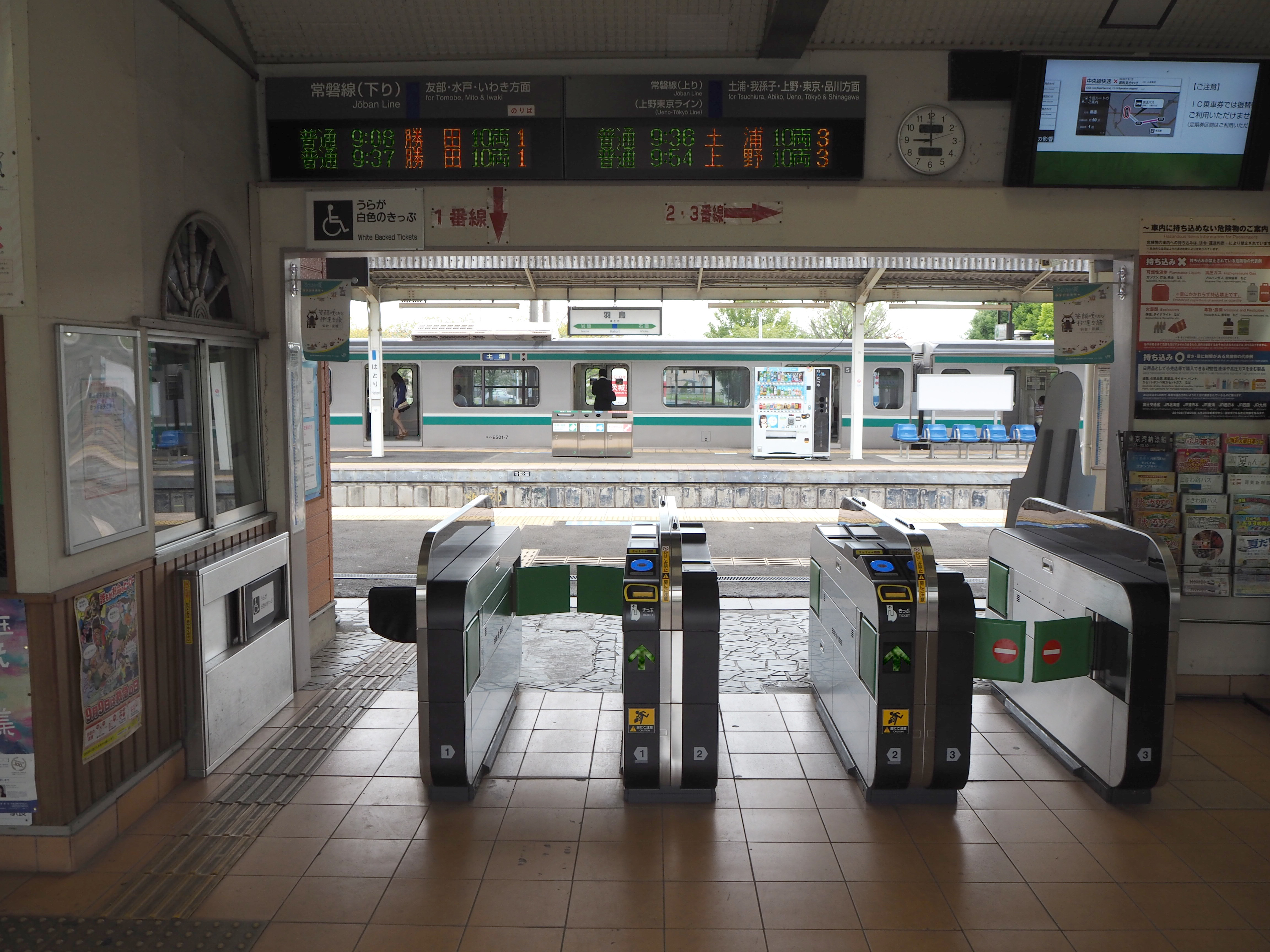 Chicket barriers of Hatori Station